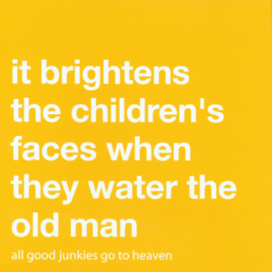 Album cover of All Good Junkies Go to Heaven (2010, Single) by Glassjaw.